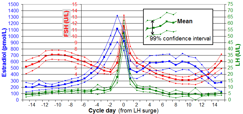 Plasma levels of estradiol, FSH and LH during menstrual cycle. Reference: High-resolution reference ranges for estradiol, luteinizing hormone, and follicle-stimulating hormone in men and women using the AxSYM assay system Anand S. Dighea, Corresponding Author Contact Information, E-mail The Corresponding Author, Joseph M. Moya, Frances J. Hayesb and Patrick M. Slussa. PMID: 15642281